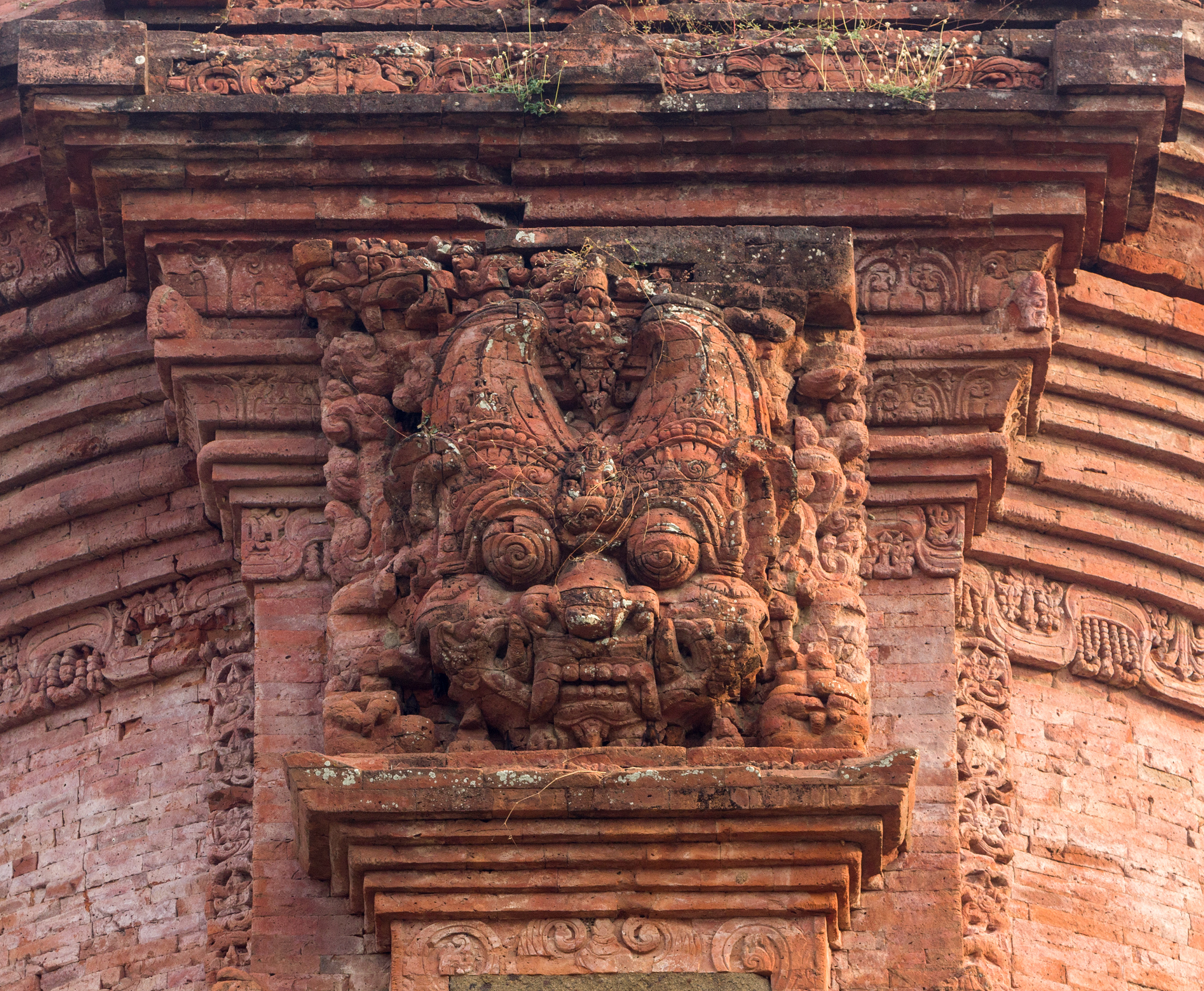 Kala head, Candi Jabung, Paiton, Probolinggo, East Java, 2017-09-14